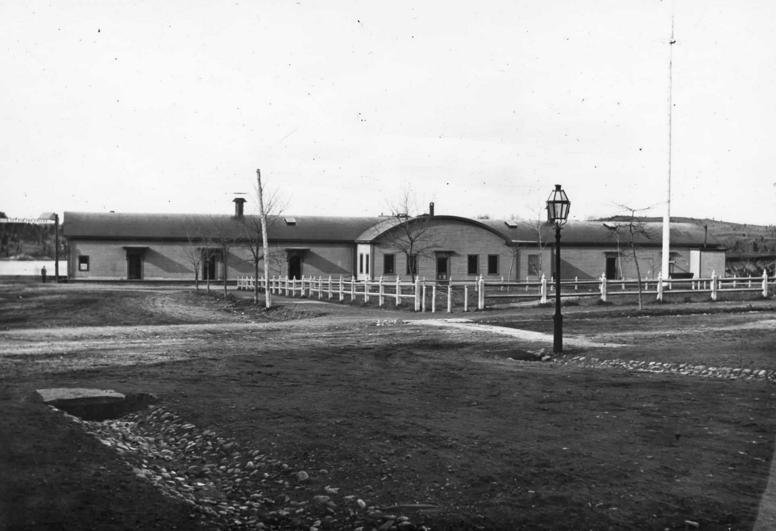 Beverly station, built around 1855, photographed around 1890. This run-through depot was replaced with a Bradford Lee Gilbert design in 1897.